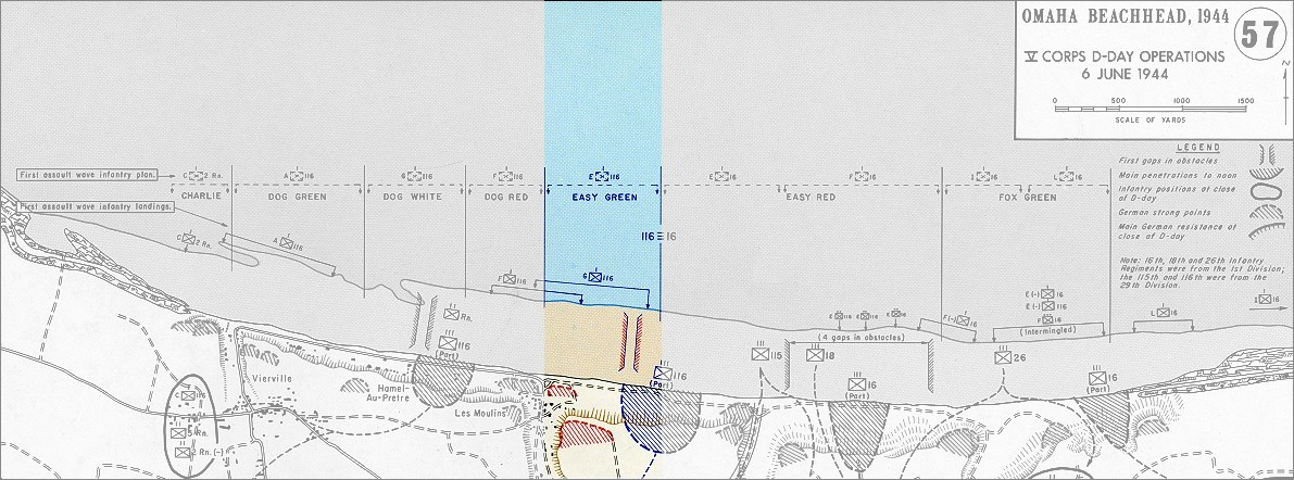 This is a treatment of the image Omaha_beachhead_6_June_1944.jpg already placed in Wikimedia Commons and used in the article Omaha Beach. I believe the source image is already GFDL licensed, and I generated this copy myself.